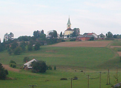 The Istvánfalvian Church (Distant Image)